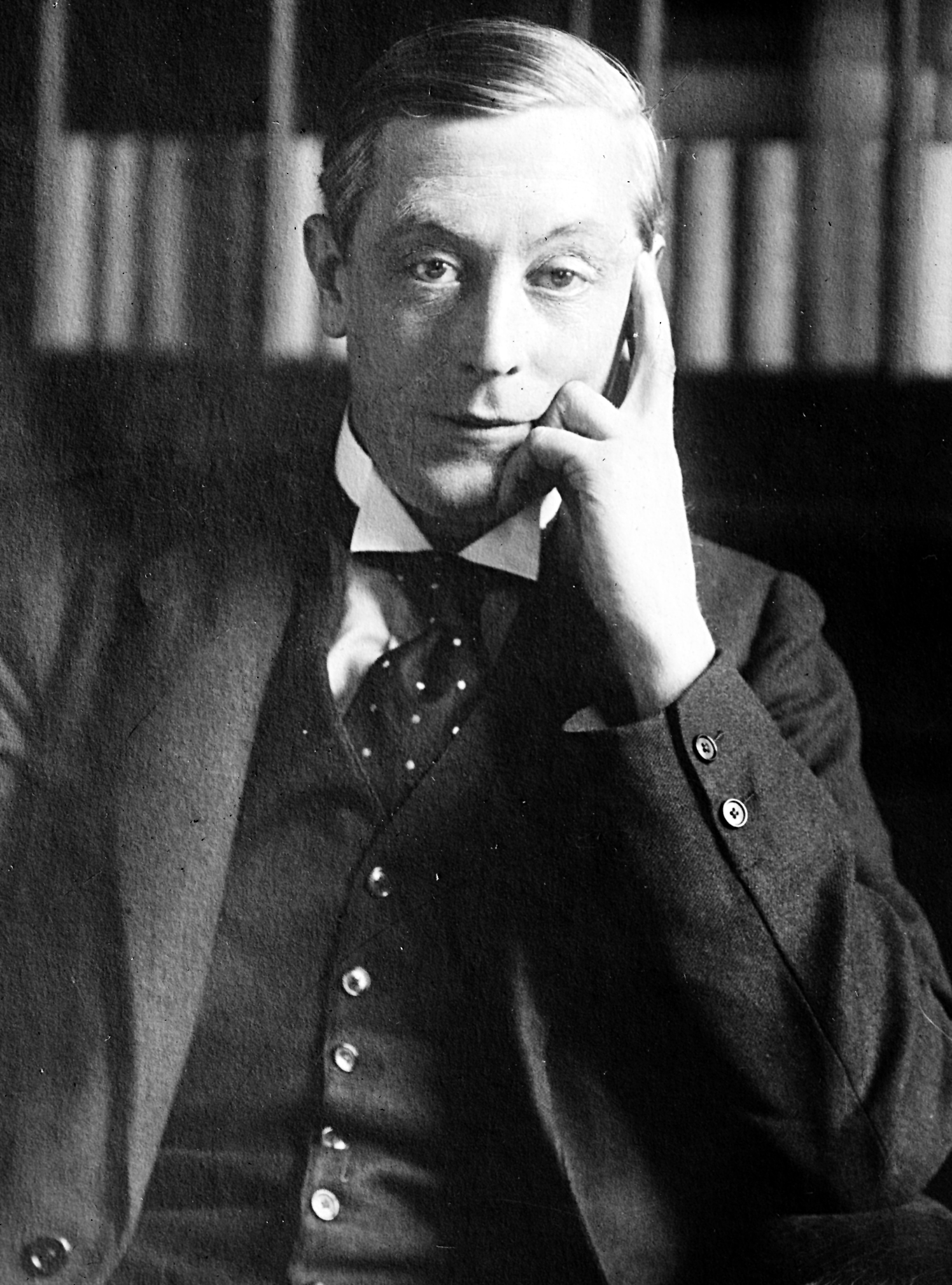 Arthur Greenwood, British politician